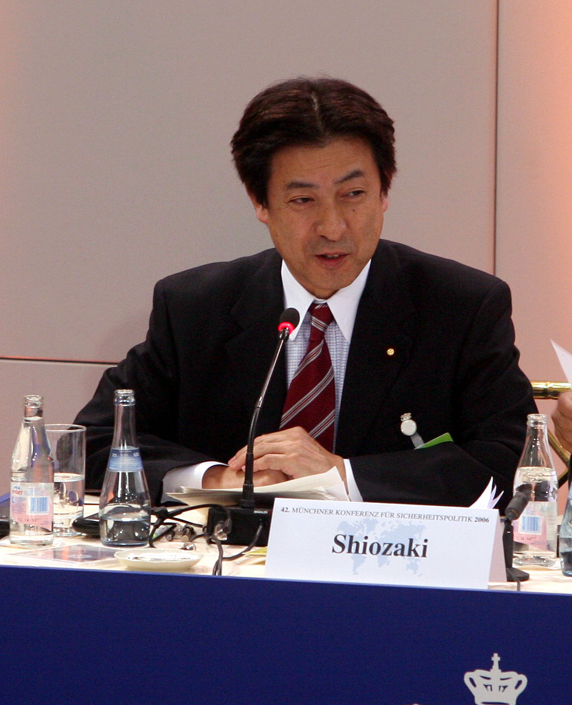 42nd Munich Security Conference 2006: Yasuhisa Shiozaki, Senior Vice-Minister of Foreign Affairs, Ministry of Foreign Affairs, Japan.